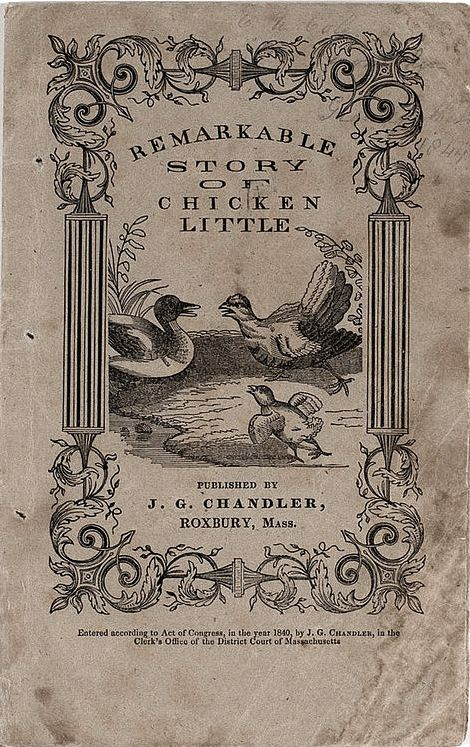 Title page of the 1840 children's illustrated book: "The Remarkable Story of Chicken Little"